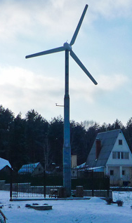 Wind turbine Winder W8